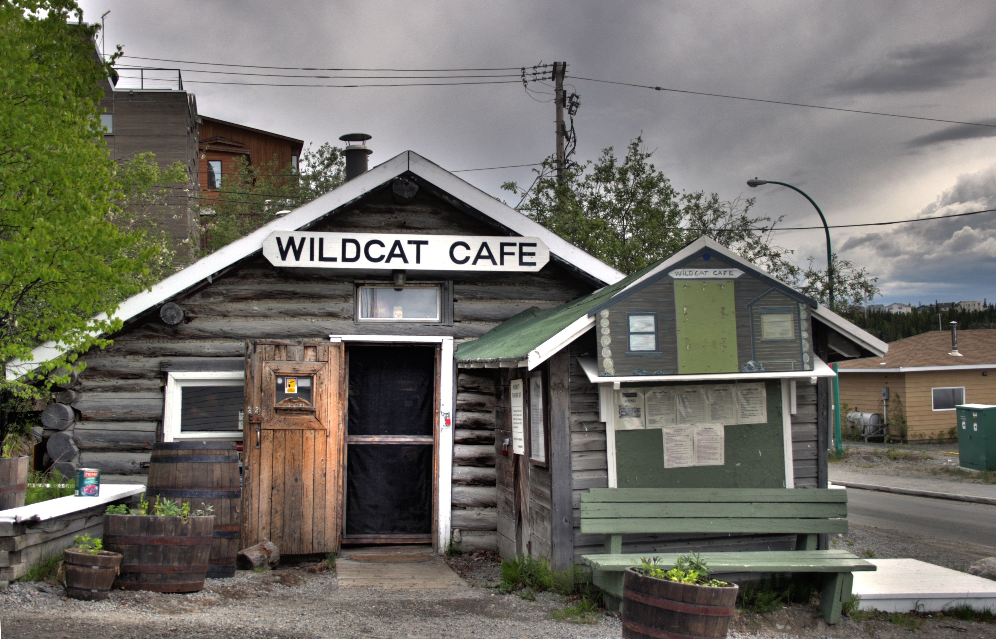 Entrance to the Wildcat Cafe in the Old Town of Yellowknife, Northwest Territories, Canada.